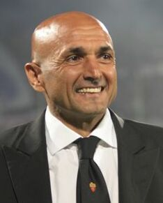 Current A.S.Roma football coach Luciano Spalletti.